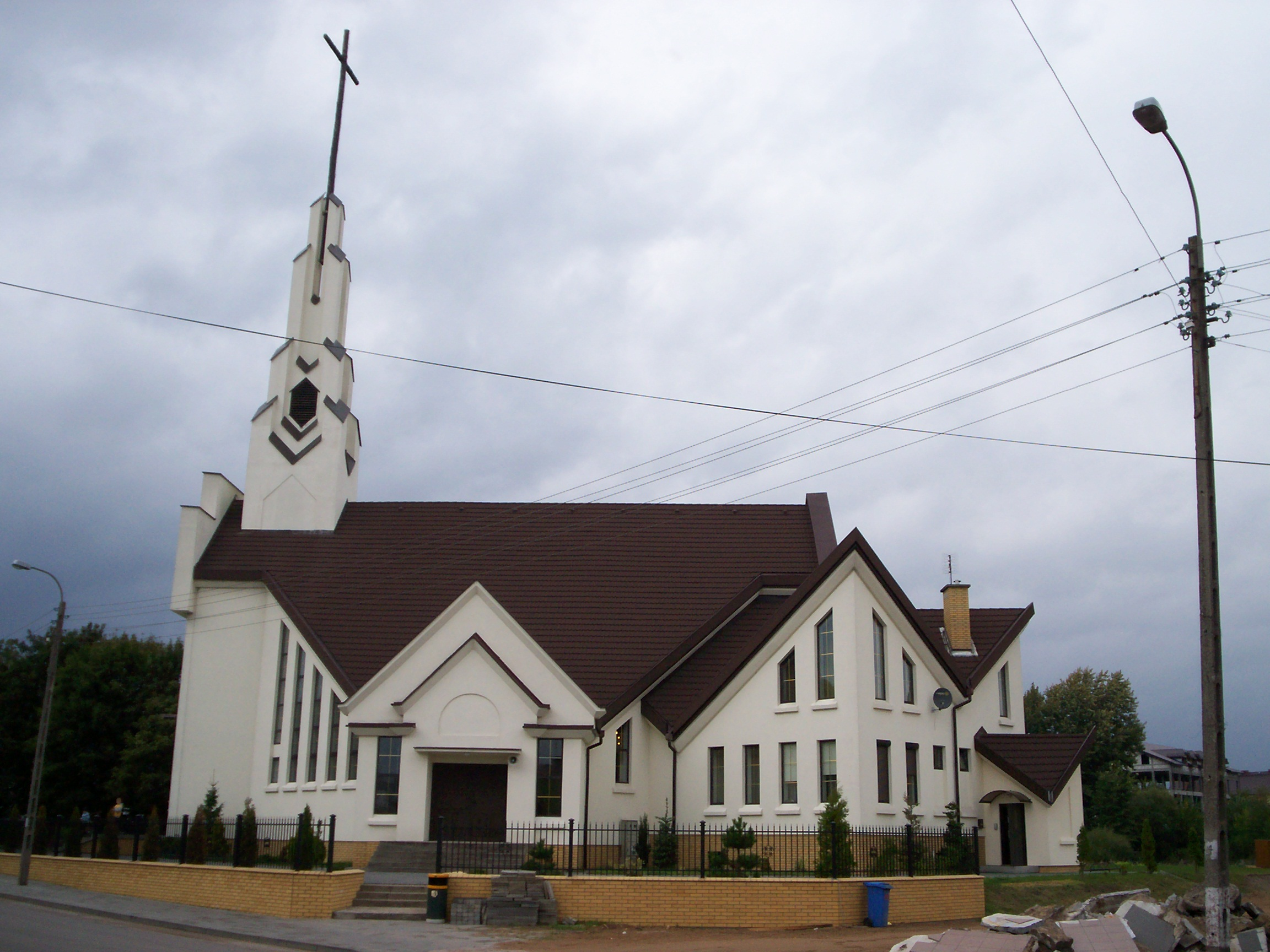 Church of Divine Mercy in Augustów.